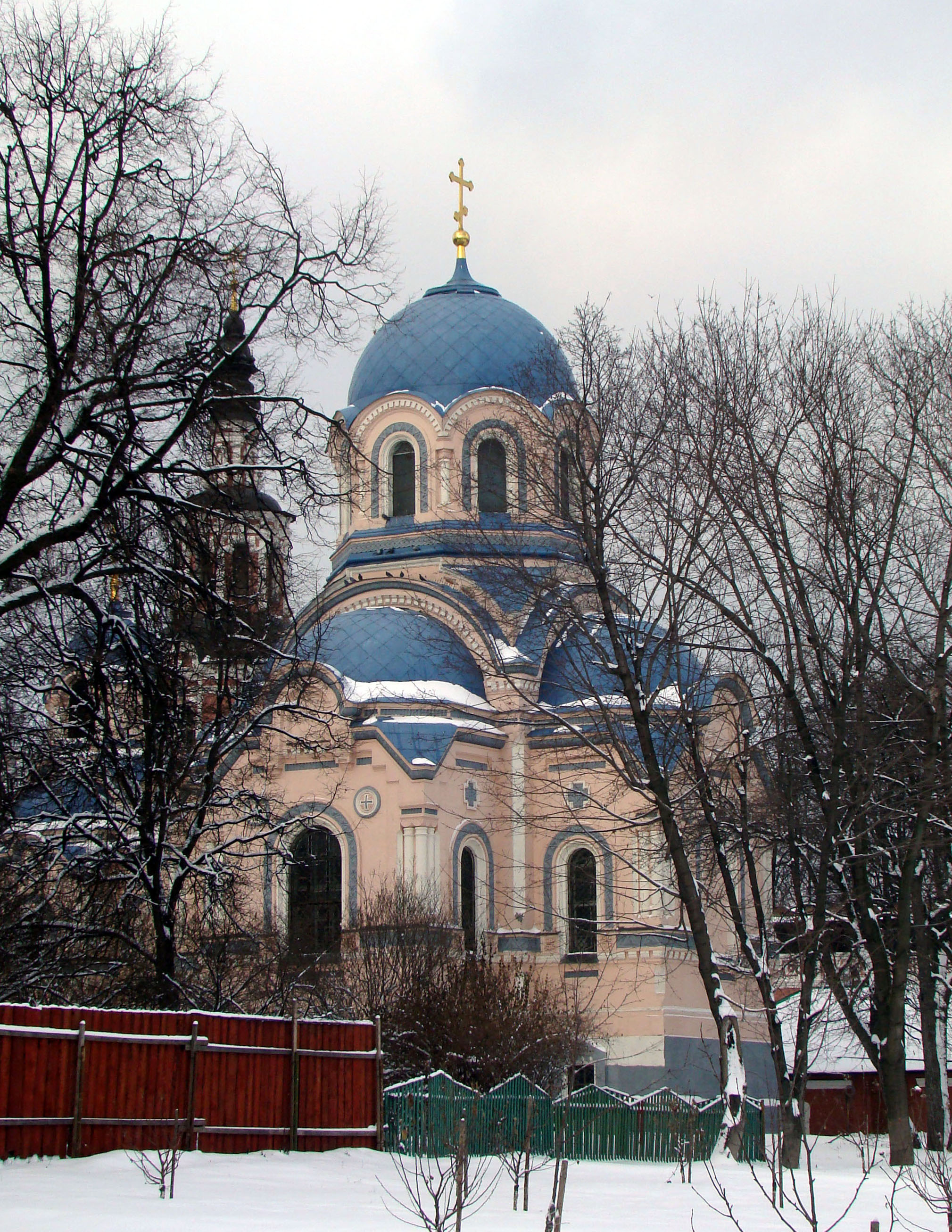 Church of John Chrysostom in Donskoy Monastery, Petrushin family vault